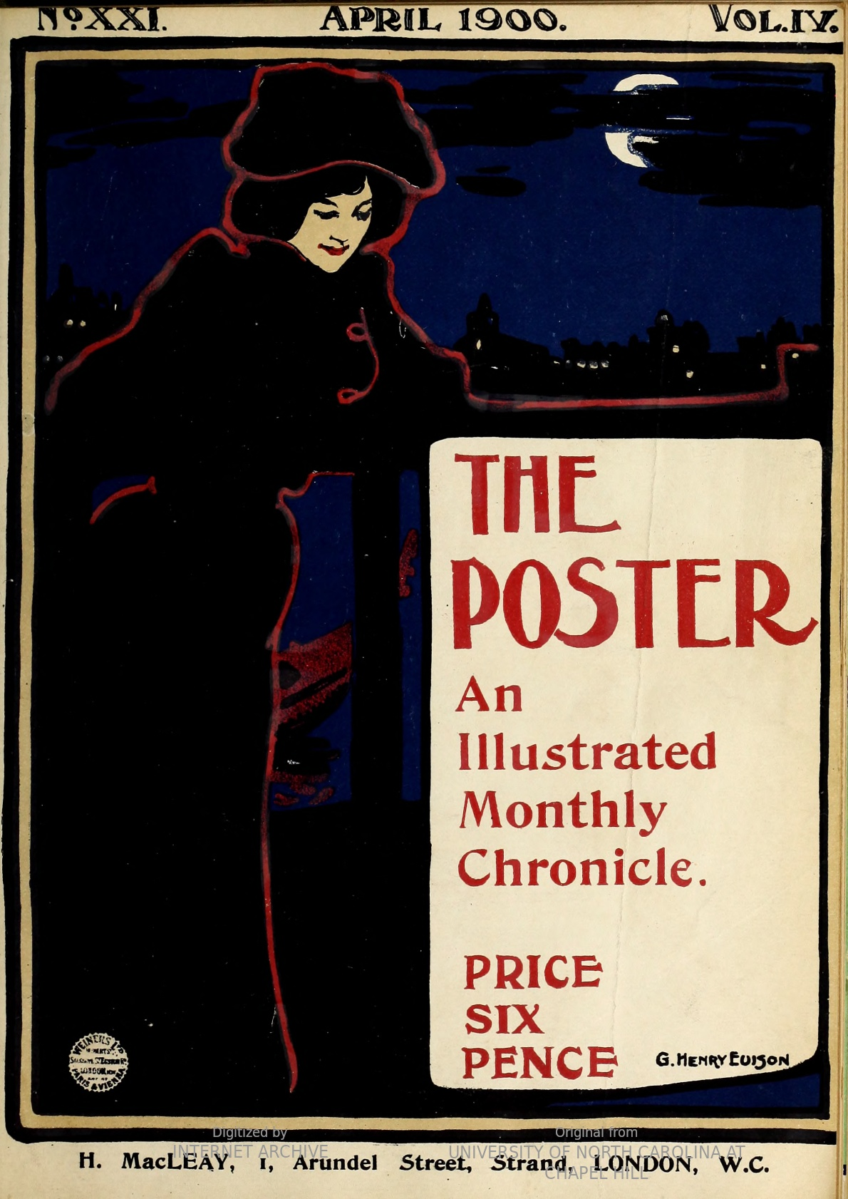 Front Cover for the The Poster No. XXI Vol: IV by George Henry Evison (1871-1928)